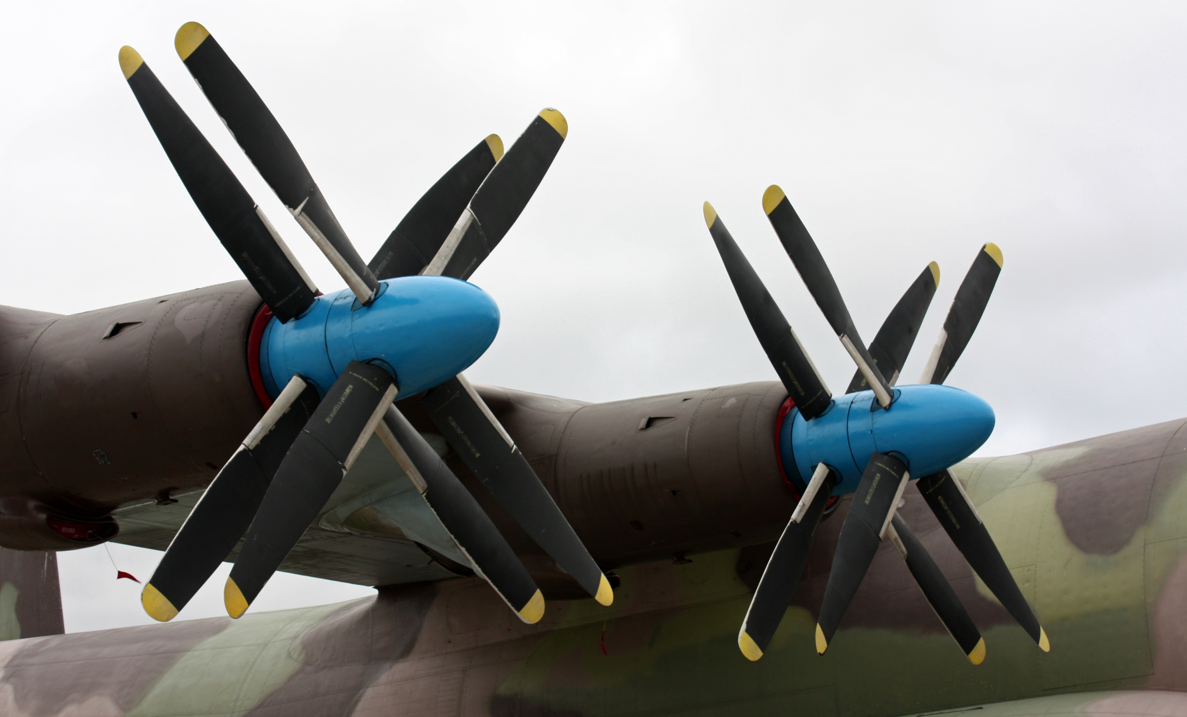 Antonov An-22 "Antaeus" (The international aerospace salon MAKS-2009)